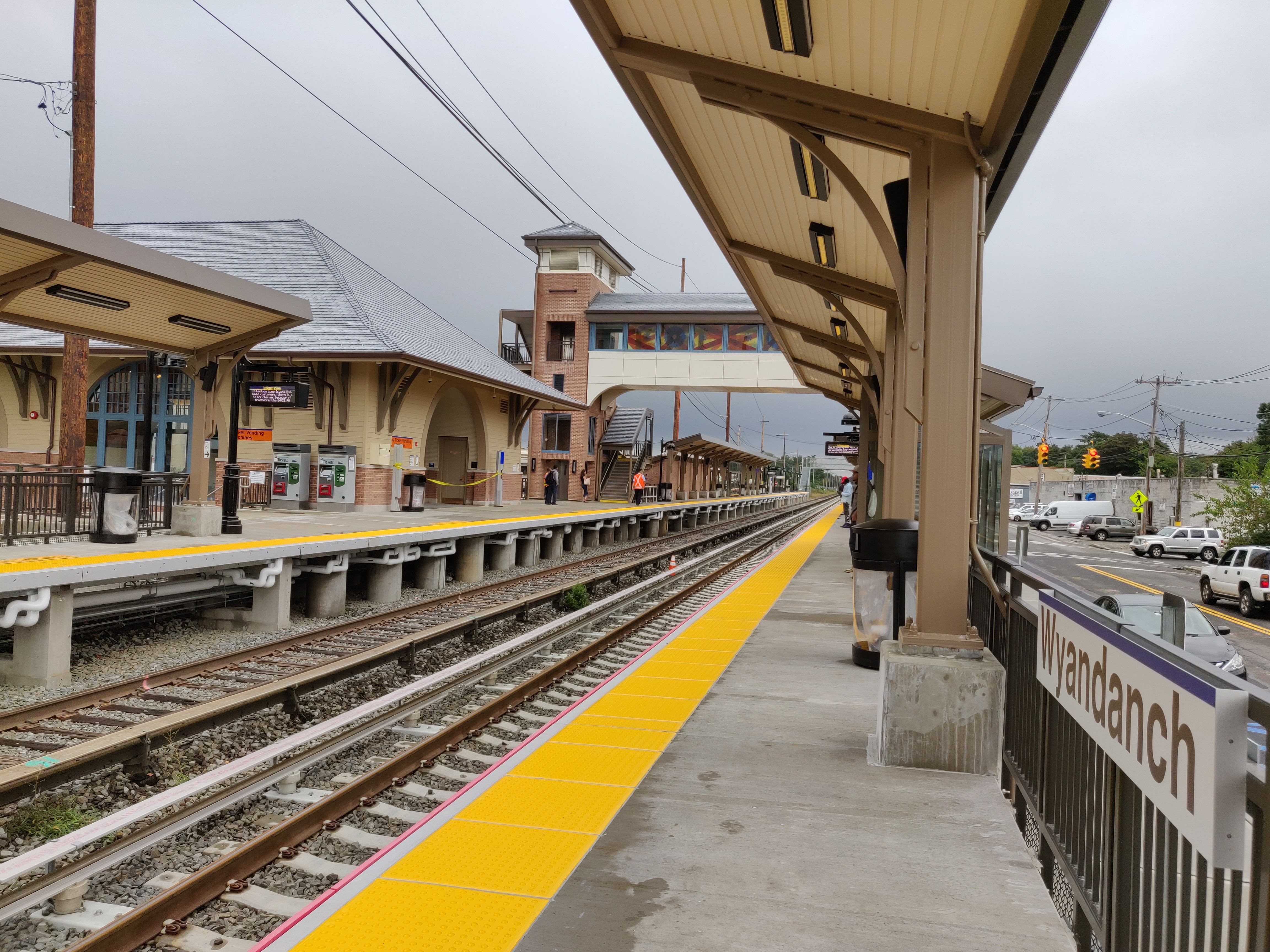 A recently (2018) completely rebuilt "Wyandanch" Station, which is part of the Long Island Rail Road. The new station house, heated platforms, second track (concrete ties), and wheelchair accessible overpass can be seen. The photographer is facing east on the east-bound platform ("B" Platform).